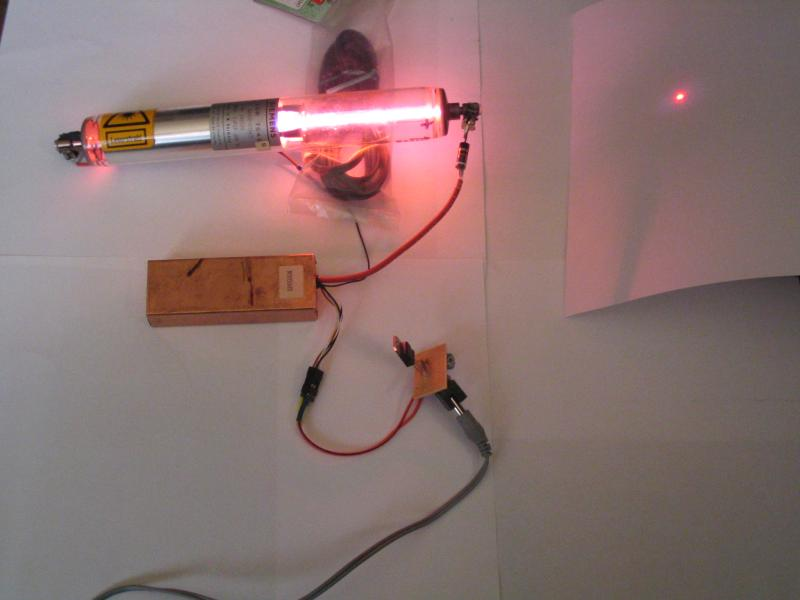 Description: Siemens LGR 7641 helium-neon laser, operating on a test rig Author, date of creation: selfmade by Shaddack, December 2004 Source: self-made Copyright: (GFDL) Comments: color JPEG